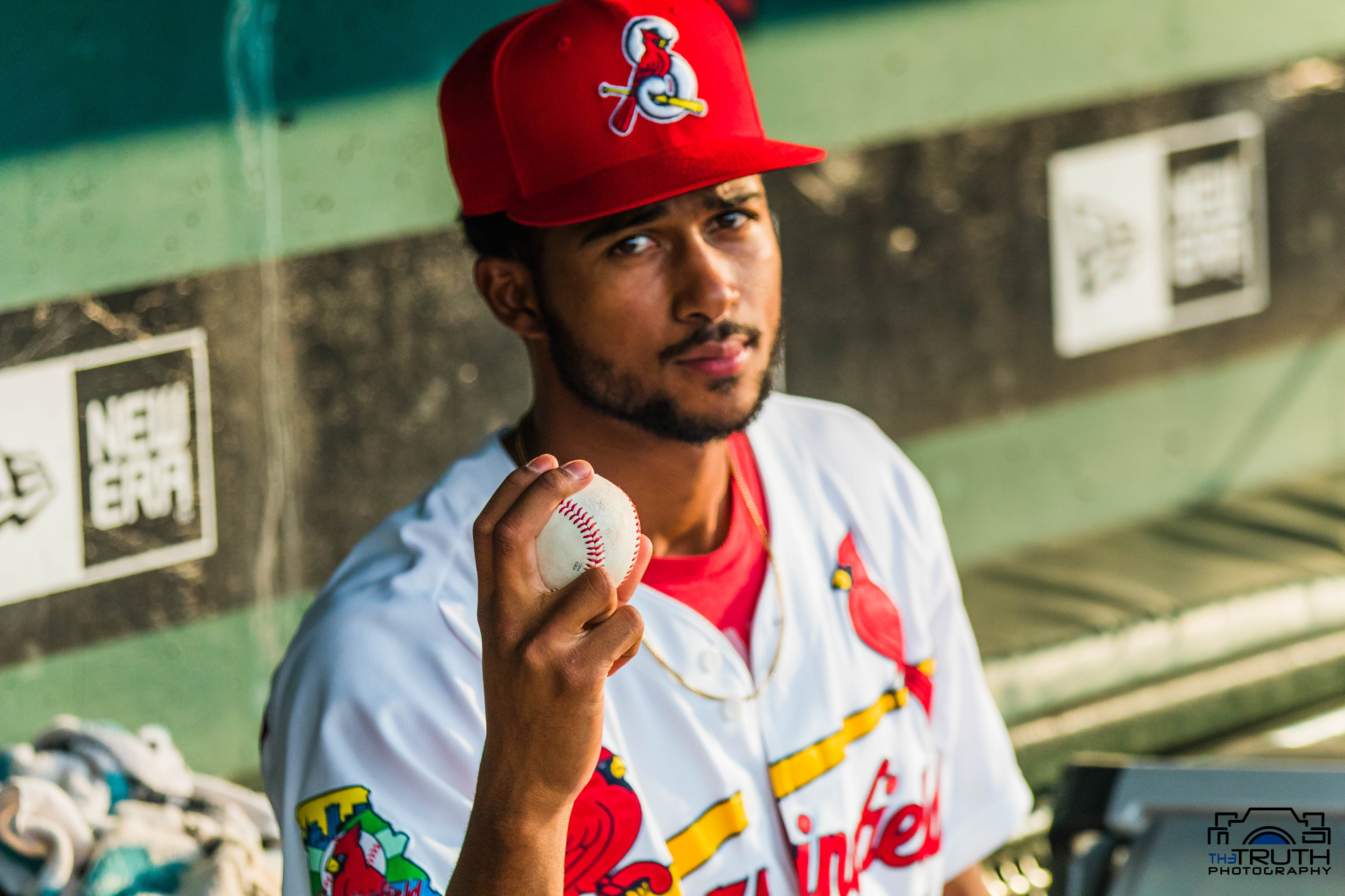 Sandy Alcantara of the Springfield Cardinals (Jeremy Davis / )